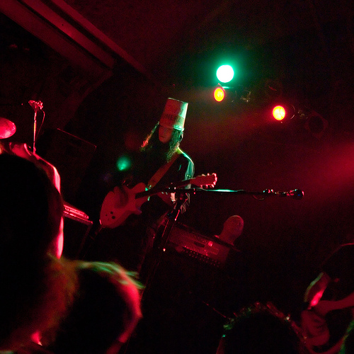 Buckethead (performing with That 1 Guy) at the Belly Up, 2006-04-23.